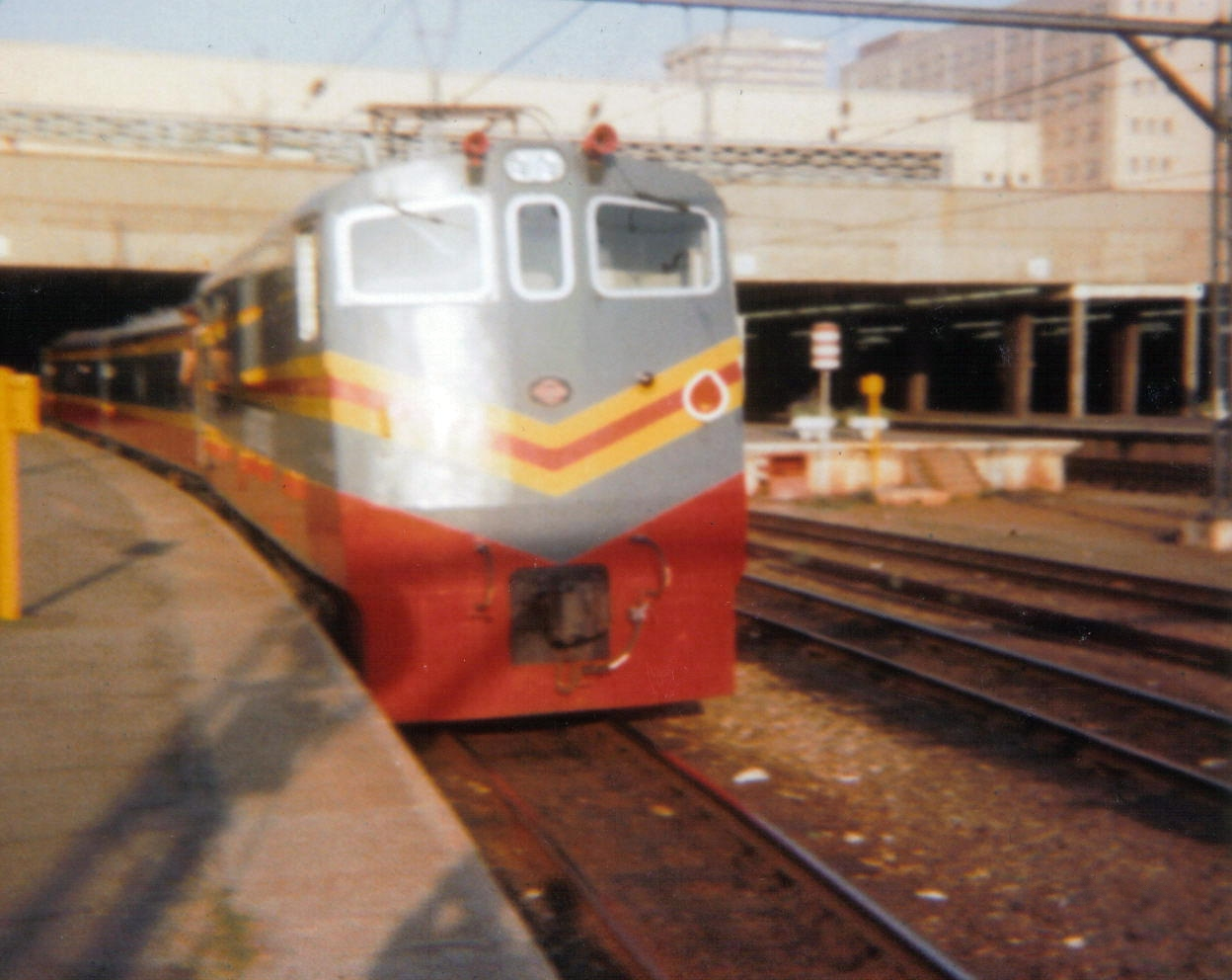 Class 12E MetroBlitzLocation: Johannesburg Station